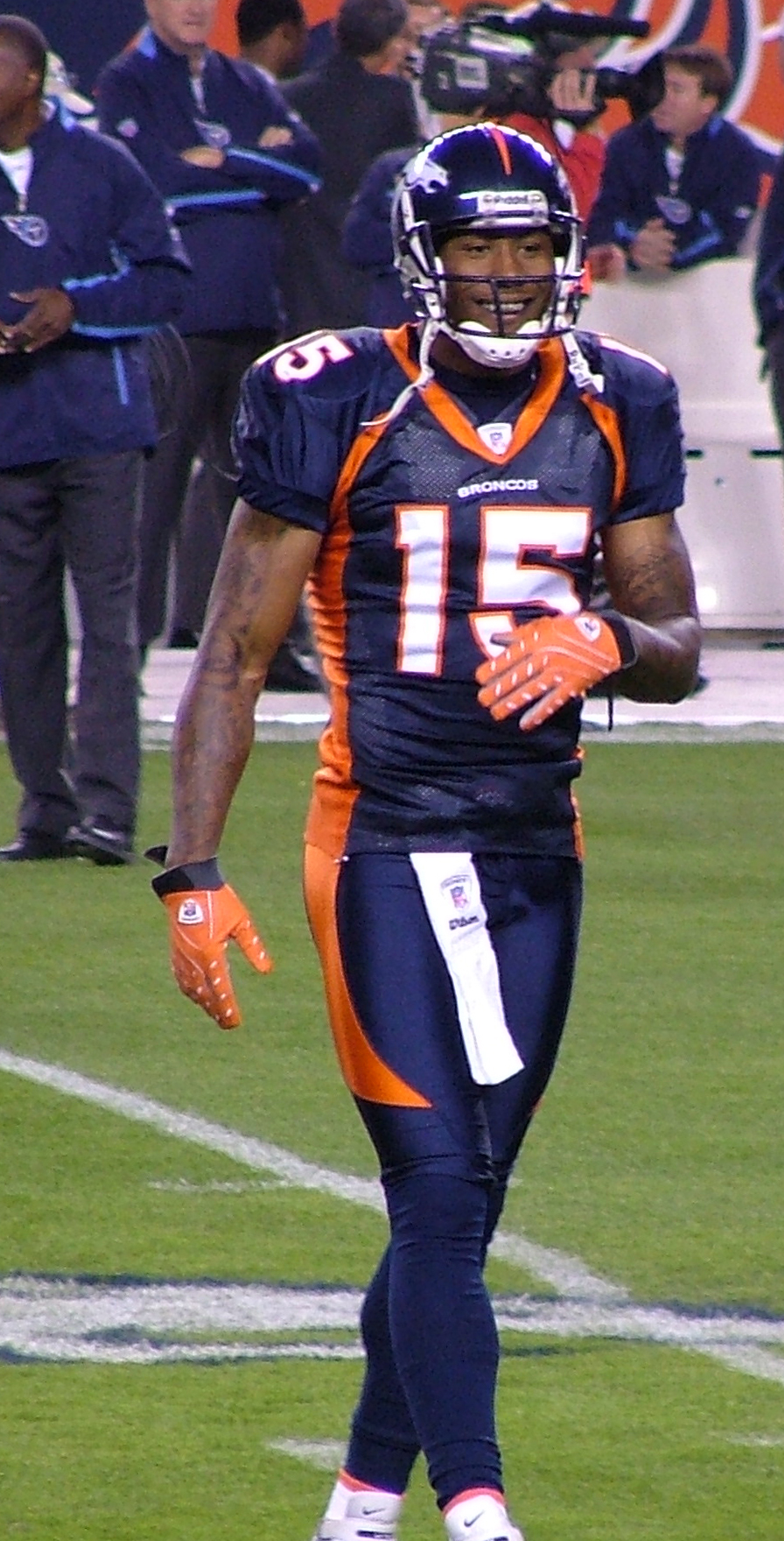 Brandon Marshall, a wide receiver with the Denver Broncos.